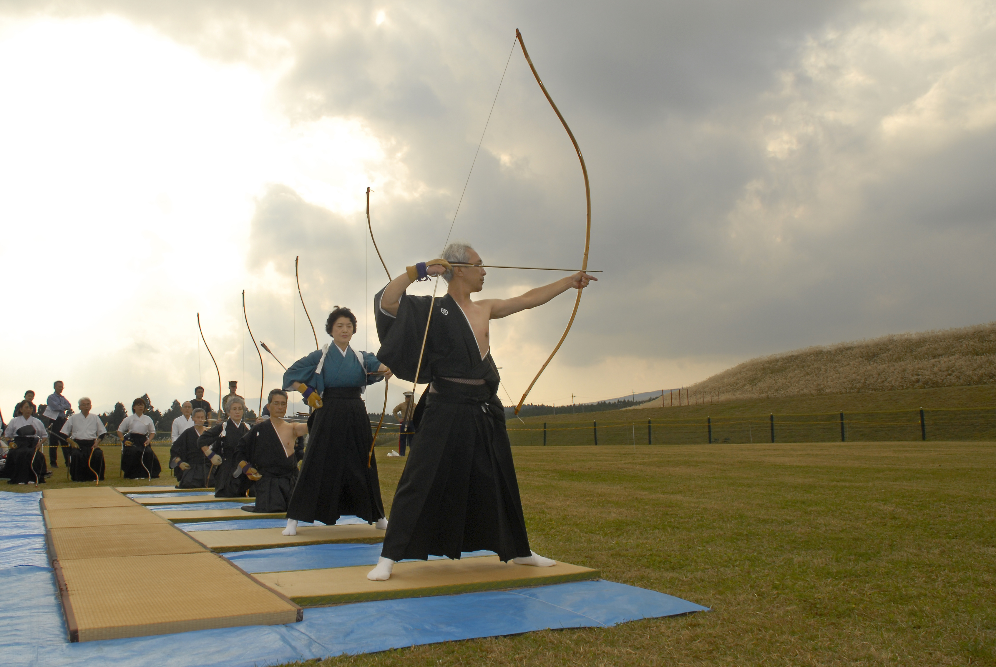 Members of the Gotemba Kyudo Association demonstrate Kyudo or "the way of archery." The Combined Arms Training Center Camp Fuji hosted Nov. 5 the 2006 Camp Fuji Martial Arts Expo, a gathering of Japanese cultural attractions with an emphasis on the martial arts, including demonstrations from 238 performers with 16 different groups and several static displays. The Shizoka Sports Association estimated the expo featured the widest variety of martial arts groups at a single event, according to expo organizers.